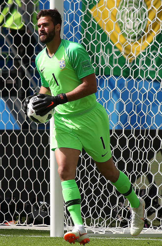 Alisson Becker